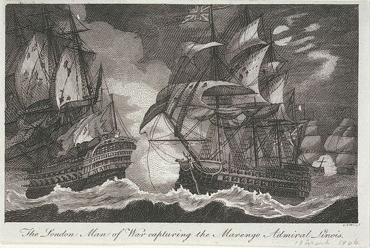 An engraving from the early nineteenth century depicting the capture of the French ship Marengo by HMS London on 13 March 1806.